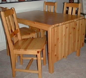 Ett vanligt förekommande svenskt köksbord med tillhörande förlängningsskiva och stolar.